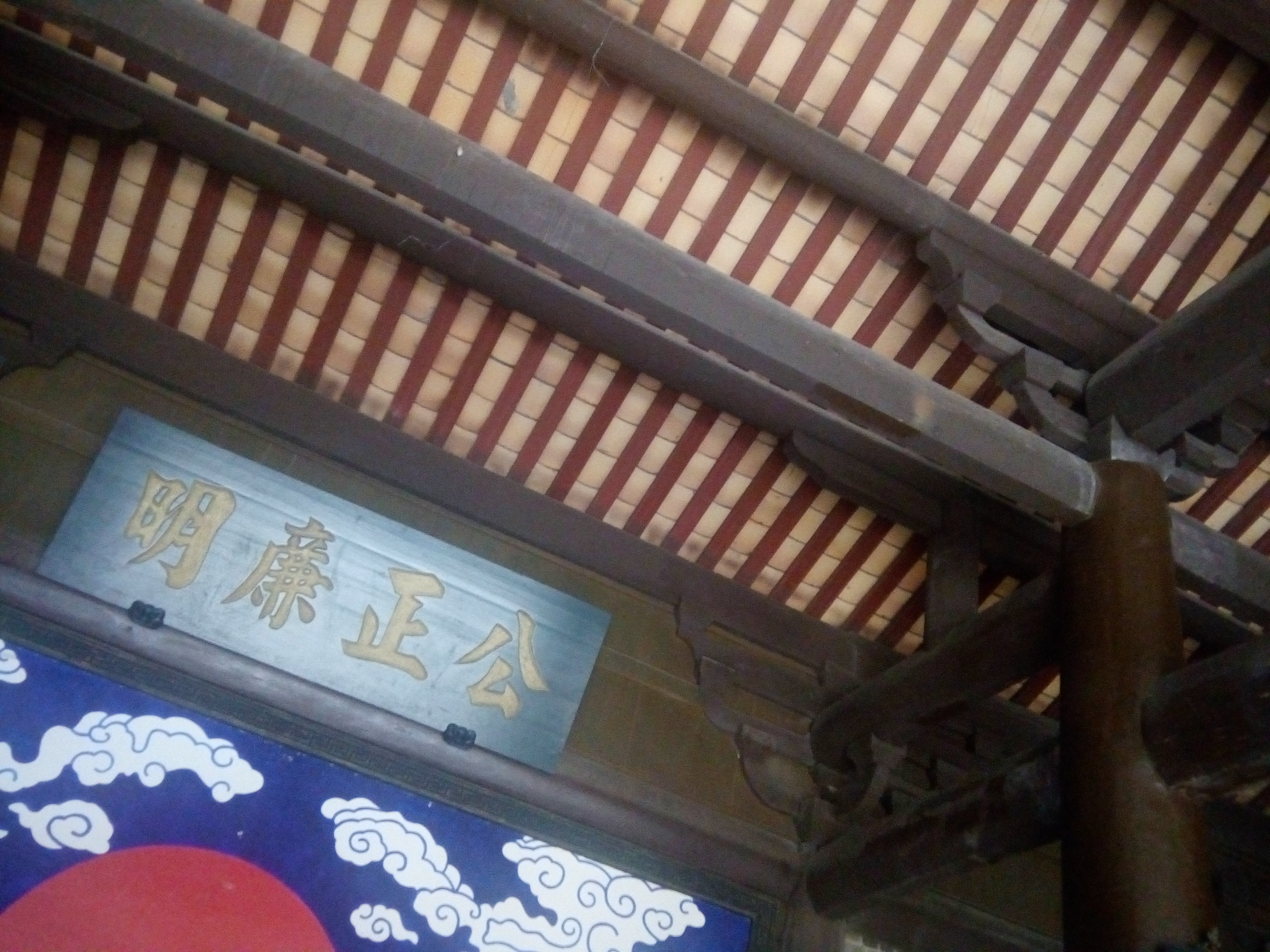 開封府衙, GD 廣東 Guangdong 佛山 Foshan 西樵山 Xiqiaoshan 國藝影視城 National Arts Studio Kaifeng Lord Bao's Office in April 2018